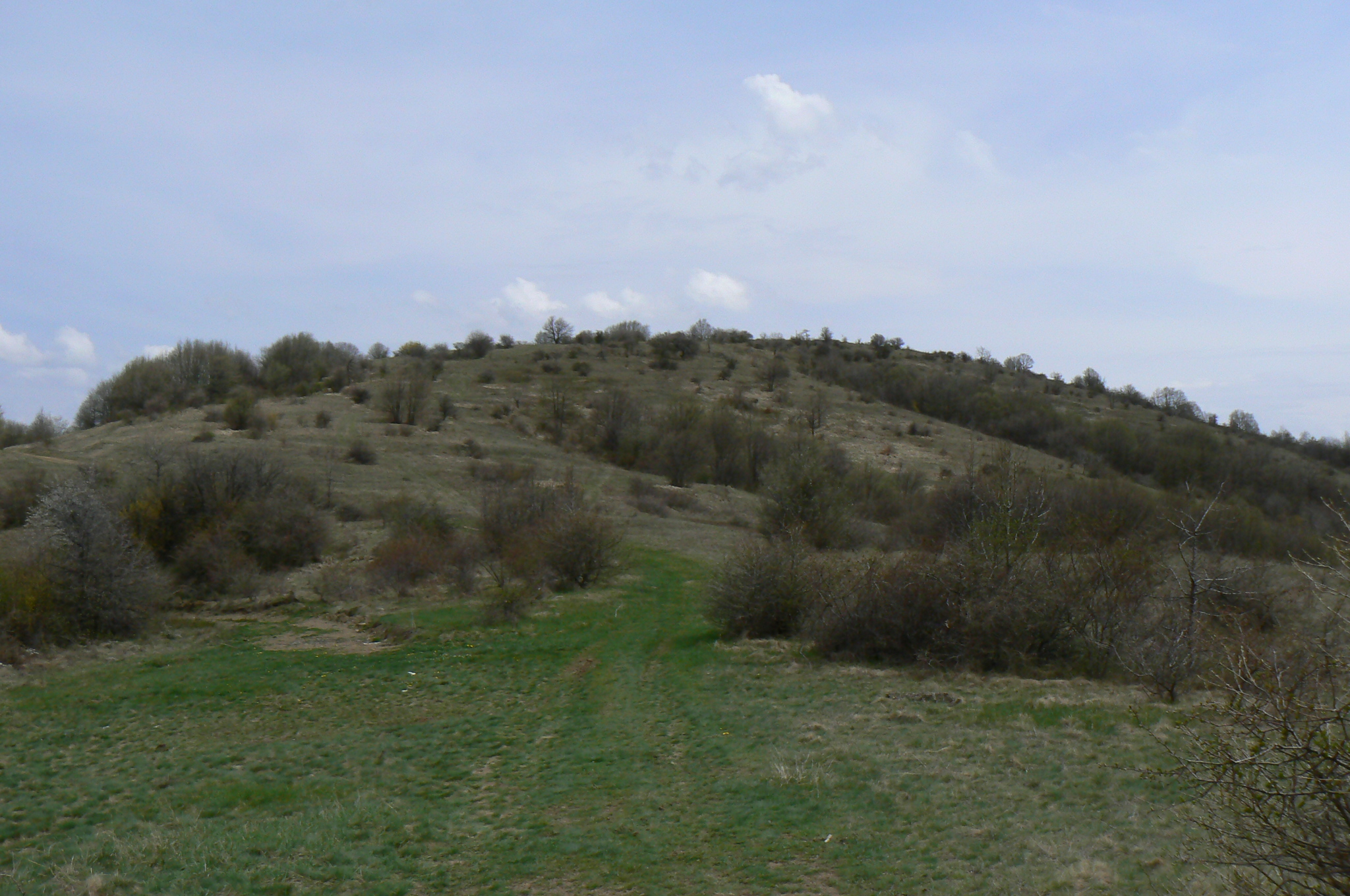 Tumba peak in Cherna Gora mountain, Bulgaria